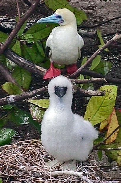 Red-footed Booby adult with chick. Coral Sea islands, Australia.